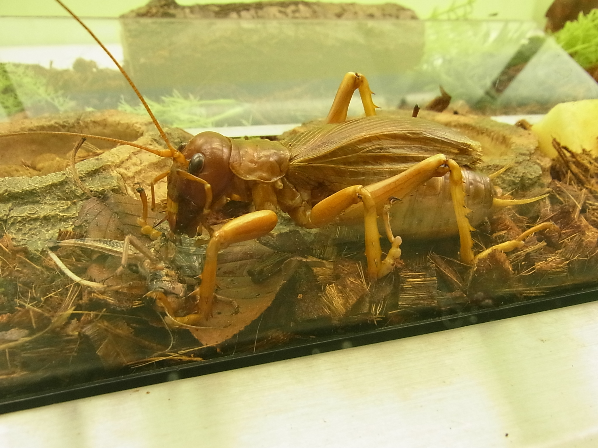 A specimen of Sia ferox.